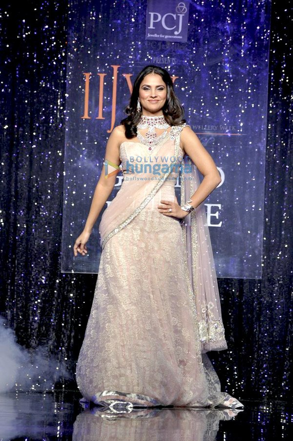 Lara Dutta walks the ramp for IIJW 2011 finale show